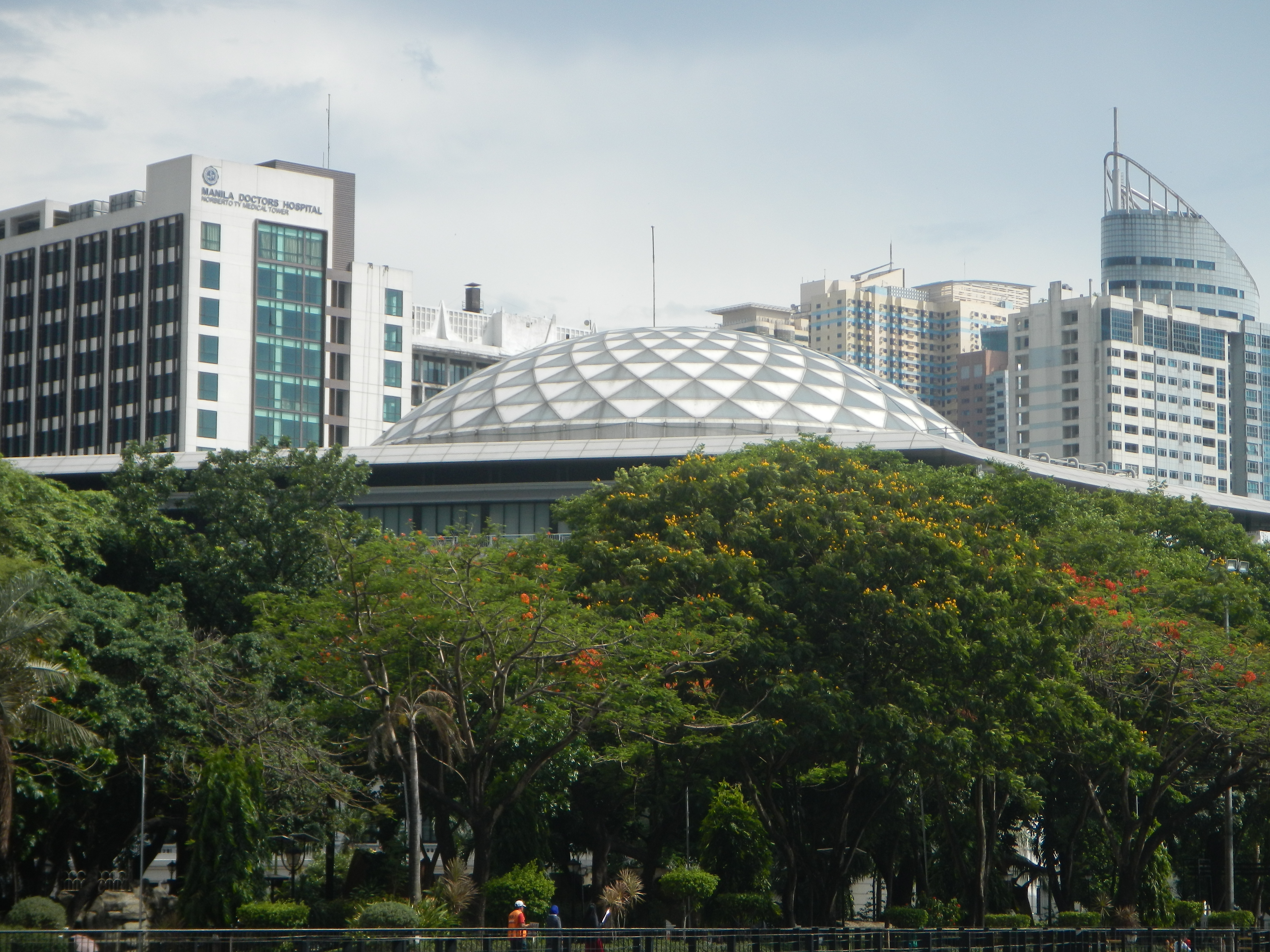 Binhi ng Kalayaan (Agrifina Circle) 14°35'6"N 120°58'55"E Agrifina Circle Torre de Manila Exterior of the National Museum of Natural History (Manila) National Museum of Natural History (Ground floor - Tree of Life Foyer, Introduction) National Museum of Natural History (Manila) (Note: Judge Florentino Floro, the owner, to repeat, Donor Florentino Floro of all these photos hereby donate gratuitously, freely and unconditionally all these photos to and for Wikimedia Commons, exclusively, for public use of the public domain, and again without any condition whatsoever).